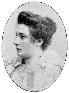 Image scanned from the book "Svenskt Porträttgalleri XX - Arkitekter, Bildhuggare, Målare m.fl. " ("Swedish Portrait Gallery XX - Architects, Sculptors, Painters, ") published 1901